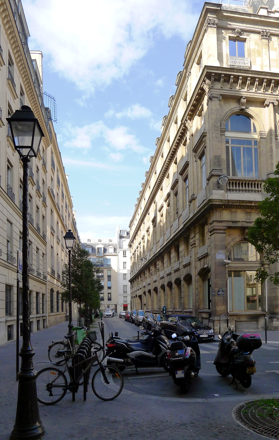 Marsollier street - Paris